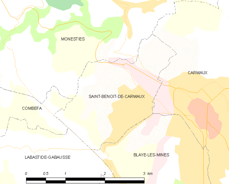 Map of French municipality Saint-Benoît-de-Carmaux